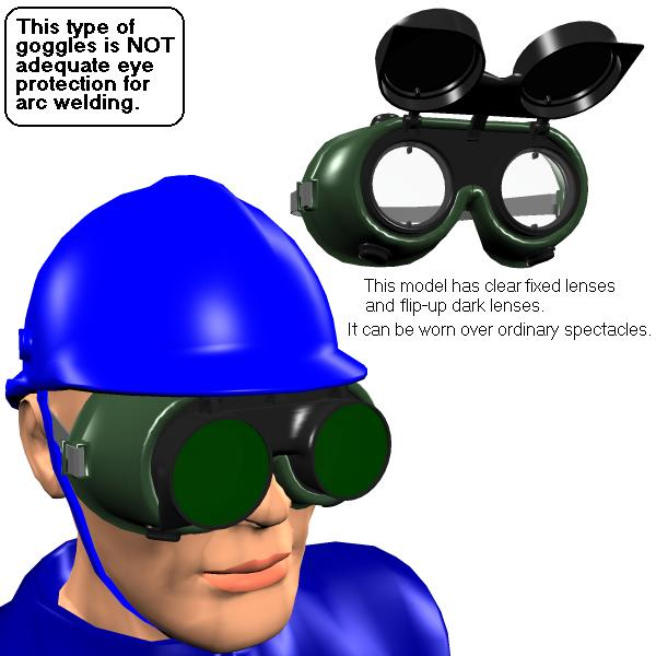 Blowtorching goggles and safety helmet I made this image with CGI.